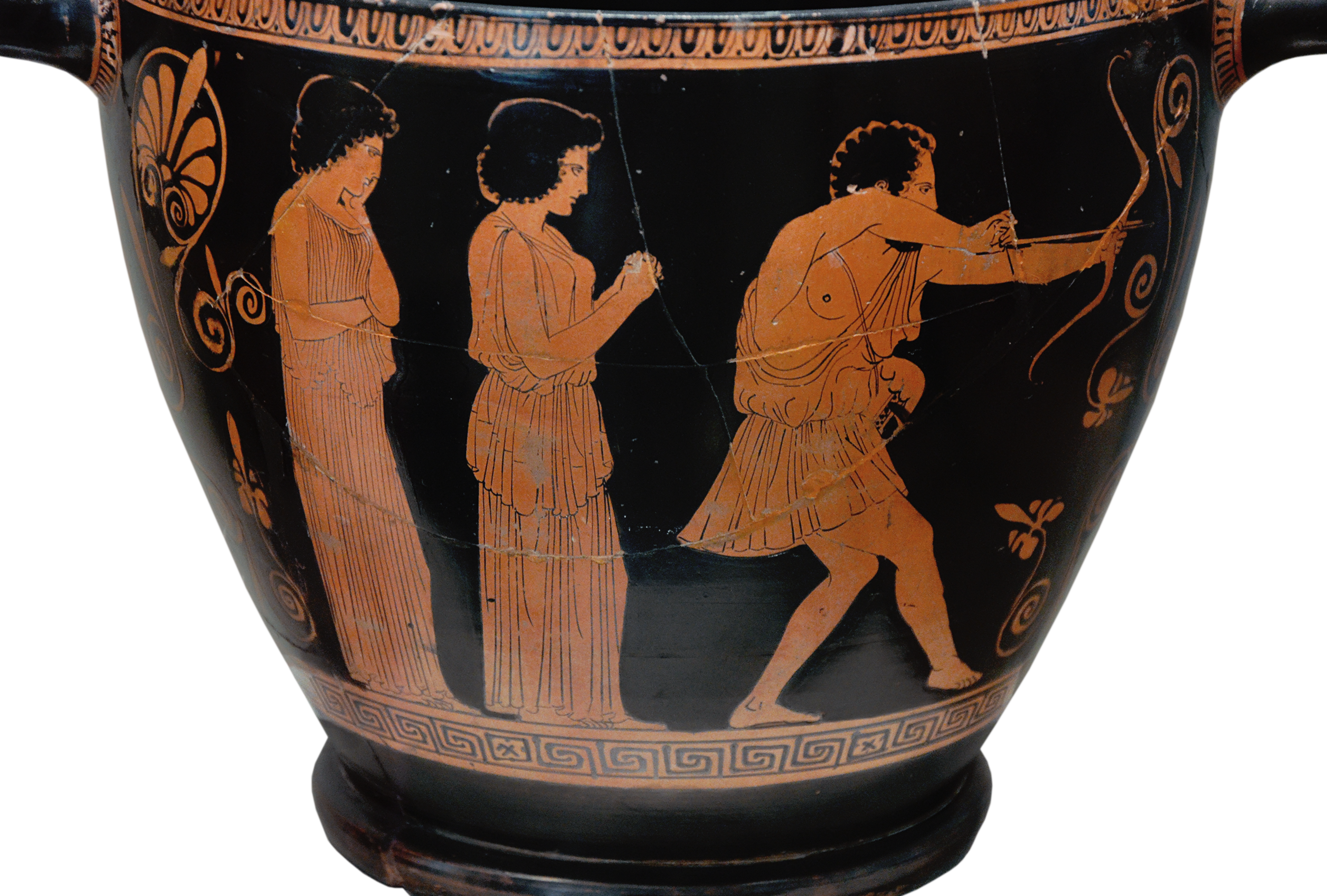 Attic red-figure skyphos ca. 440 BCE, depicting Odysseus slaying the suitors of his wife Penelope, from Tarquinia (Italy), Altes Museum Berlin The original photo was taken by Carole Raddato 28 March 2014, 12:42 and uploaded to Wikimedia Commons from Flickr by user:Butko 16 January 2015. This version of the image has been digitally edited to reduce the glare and changed the background to solid white